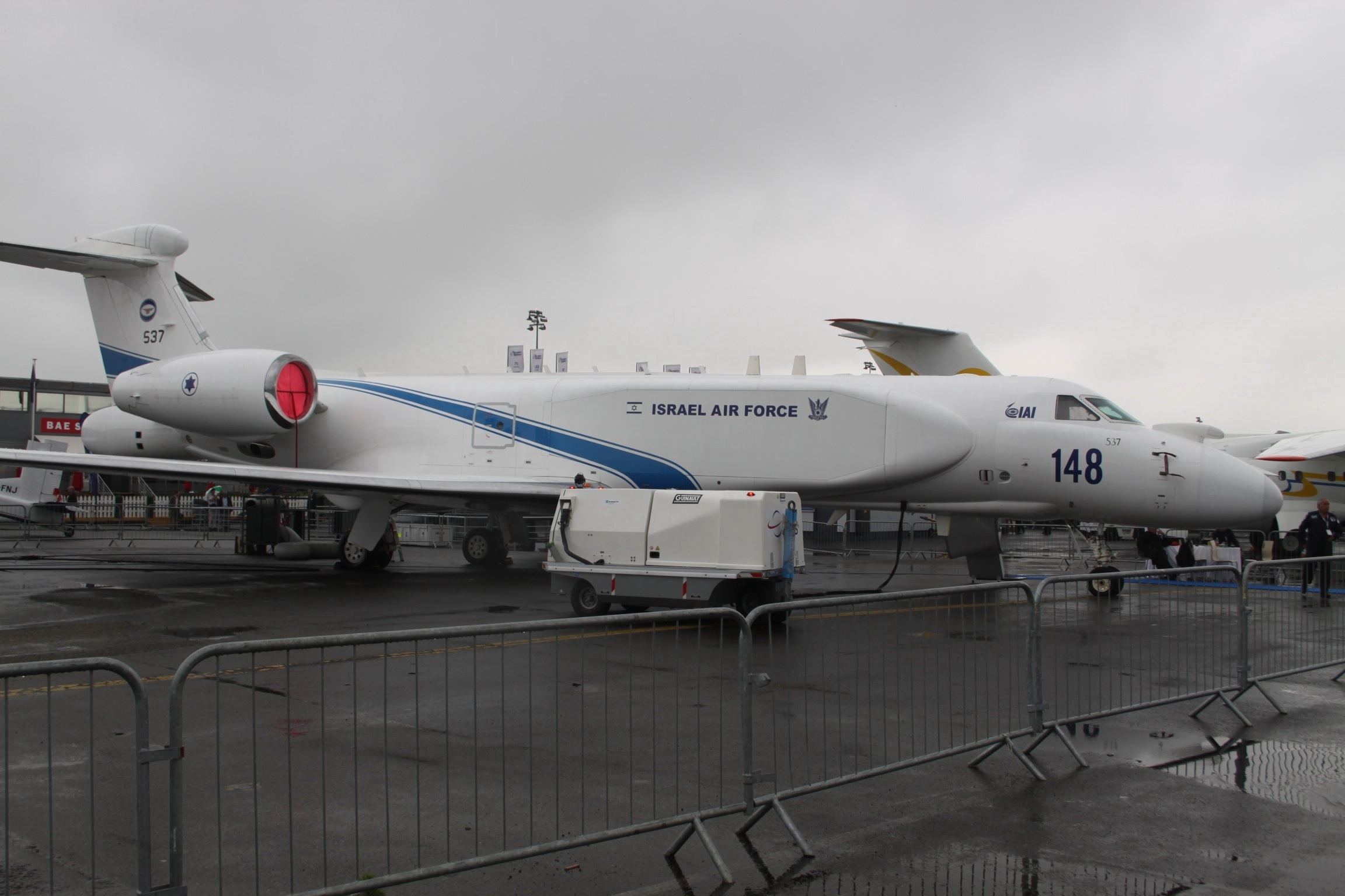 At Paris Le Bourget